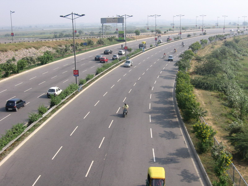 DND Flyway